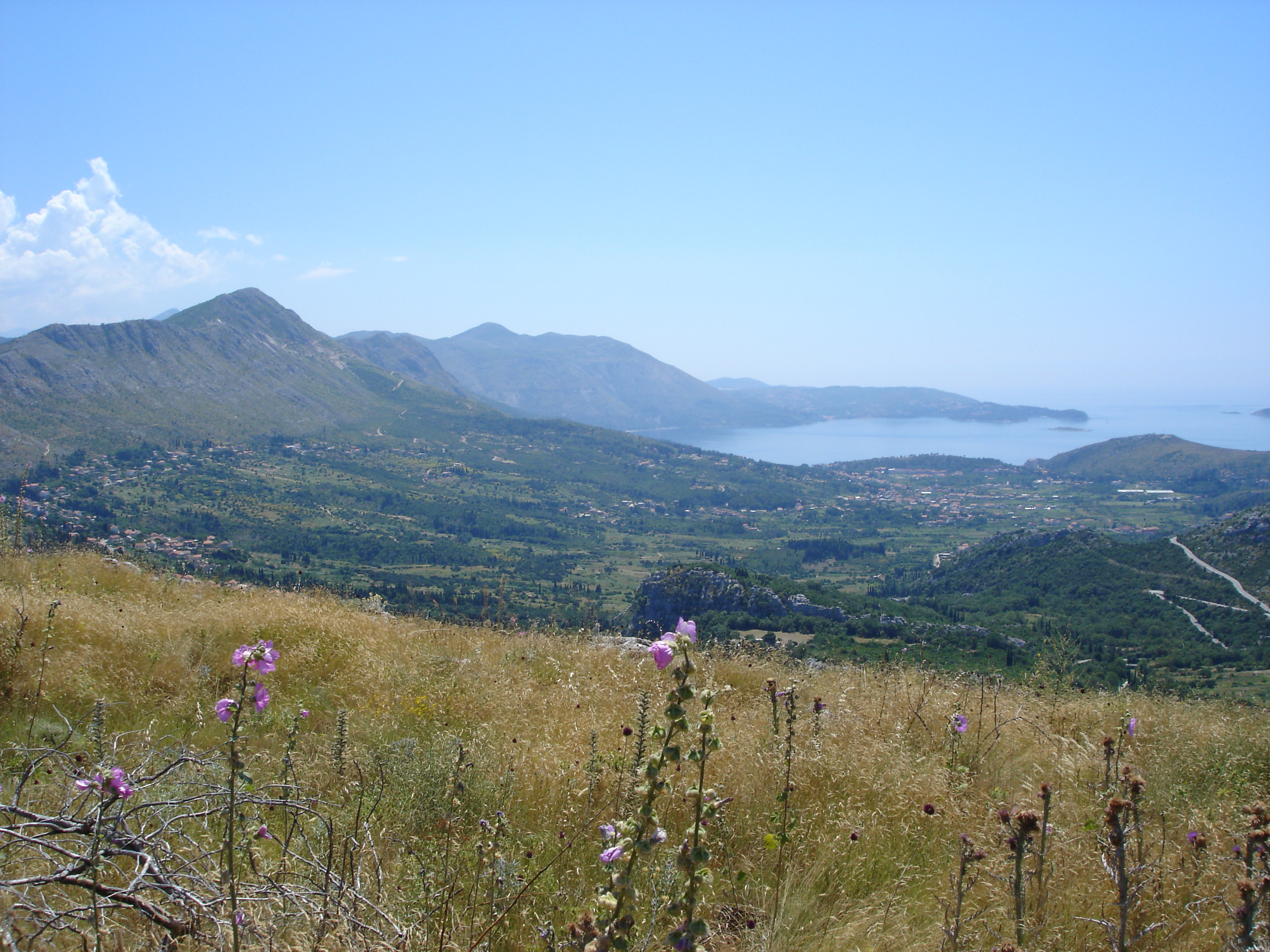 Ivanica - BiH , vue of Adriatic sea from the rand of the village